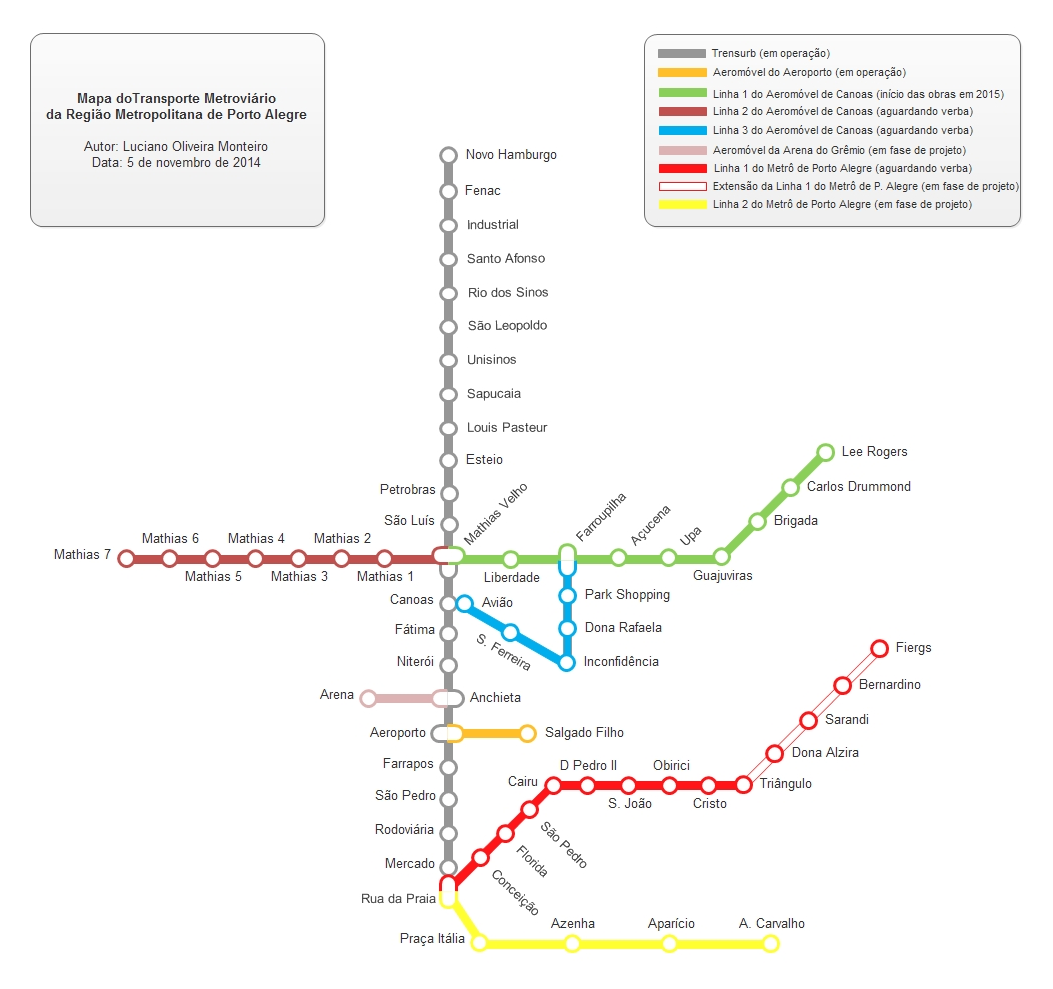 A map containing current and potential (at different stages) metropolitan train lines in the metropolitan area of Porto Alegre